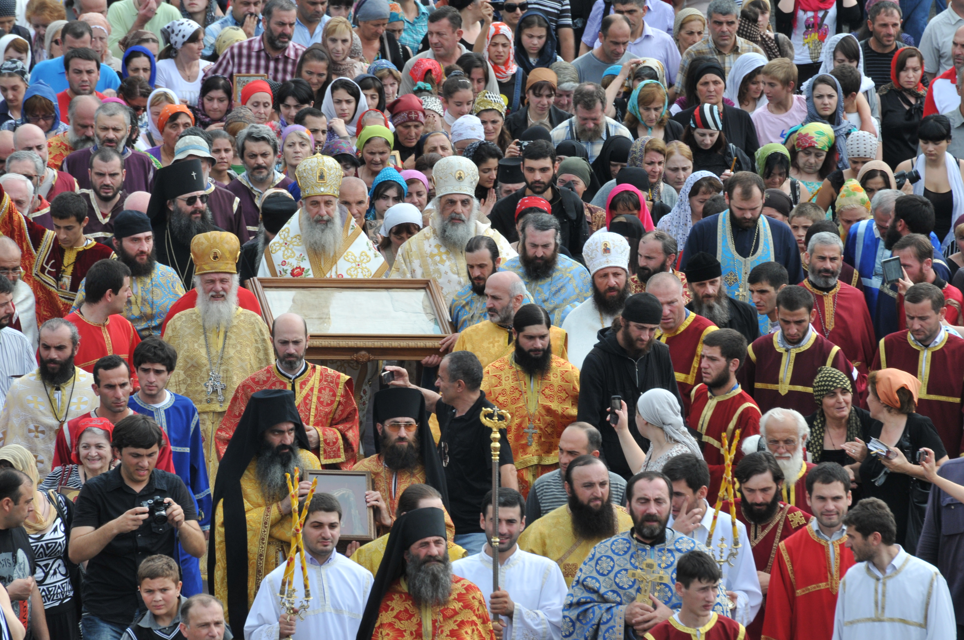 aegaegaaega